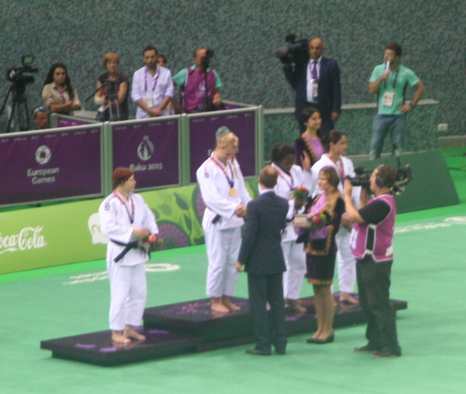 Awarding ceremony of the judo women 63 kg of the 2015 European Games